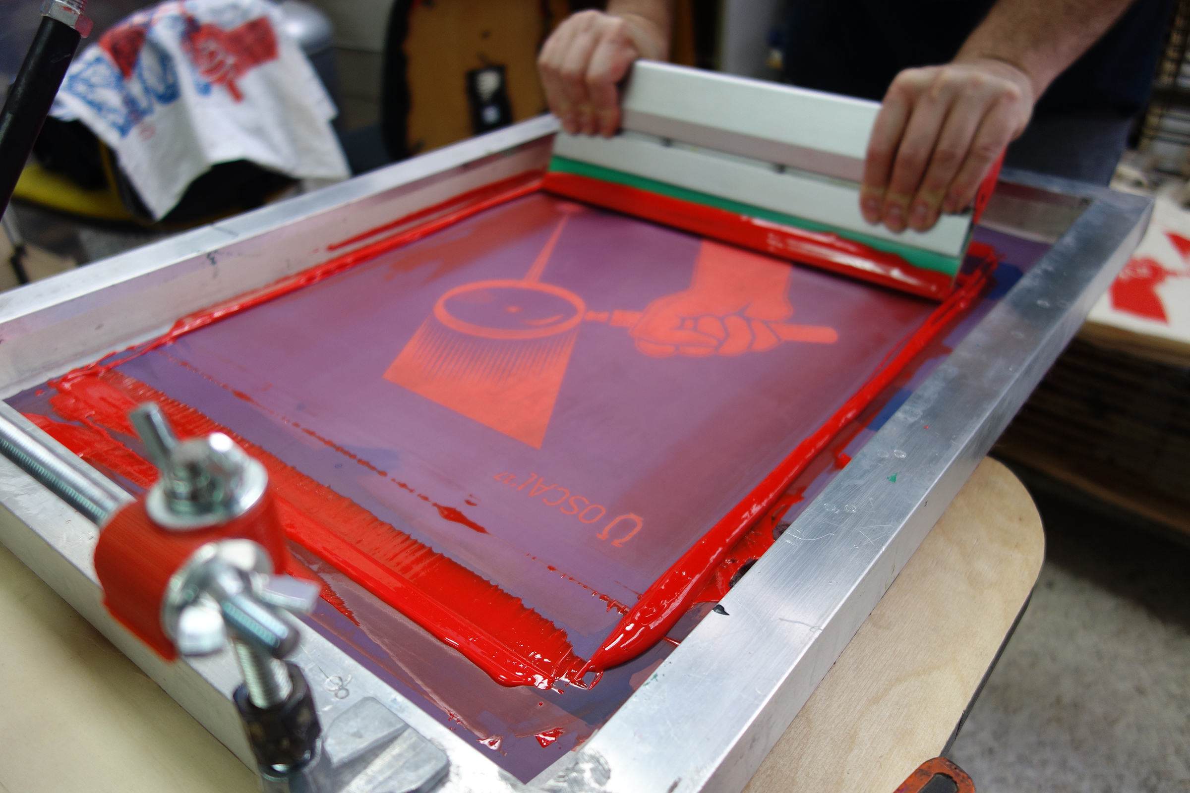 Photos from the production process of the promo materials (posters and tote bags) of the fourth edition of Open Source Conference Albania that takes place in Tirana Albania in the second weekend of May 2017. The materials were printed using the silkscreen method.